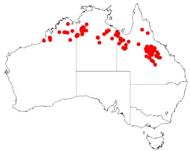 Occurrence data from Australasia Virtual Herbarium downloaded from on 8 December 2018